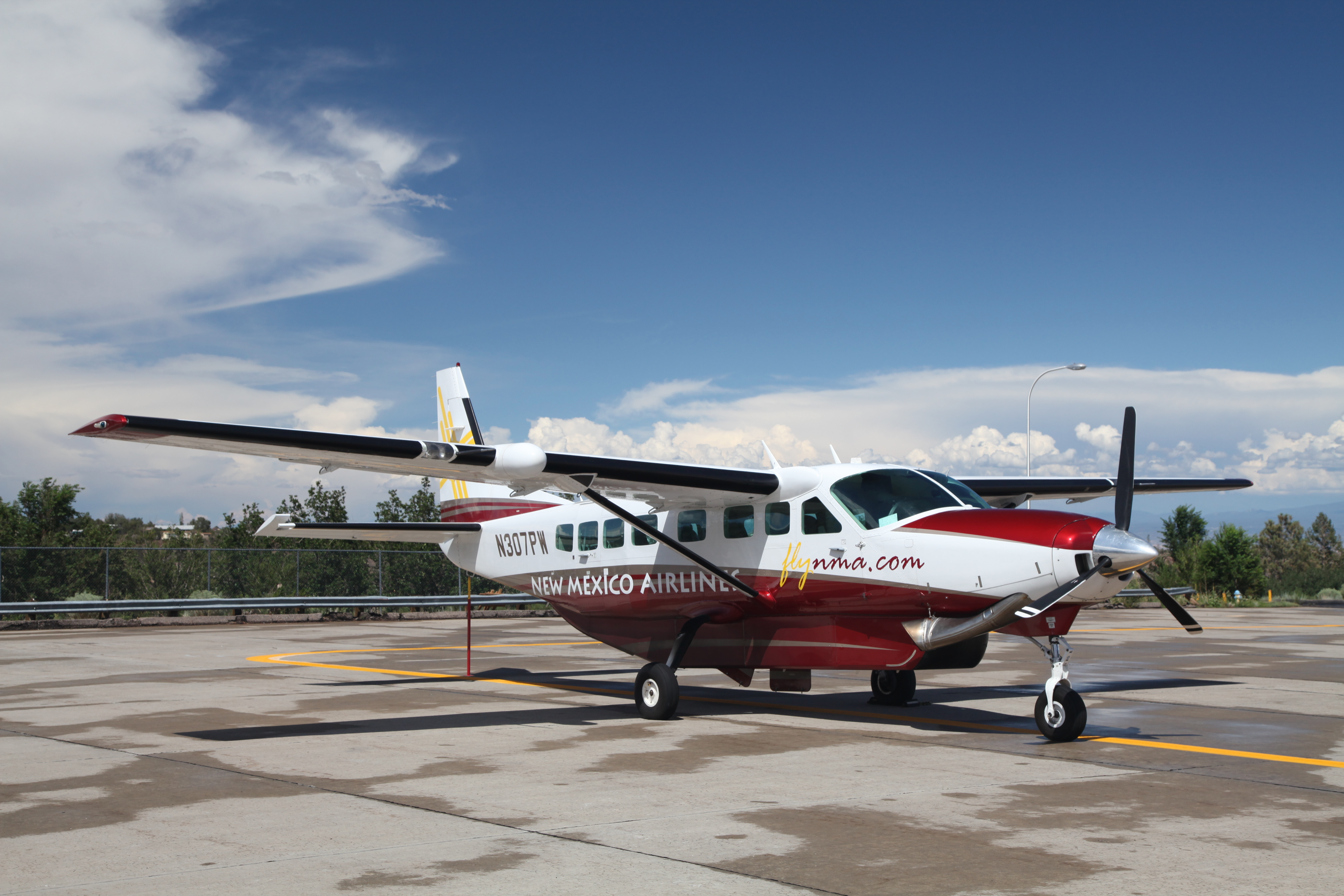 Cessna 208 Grand Caravan by New Mexico Airlines at Los Alamos County Airport (LAM), New Mexico, USA.